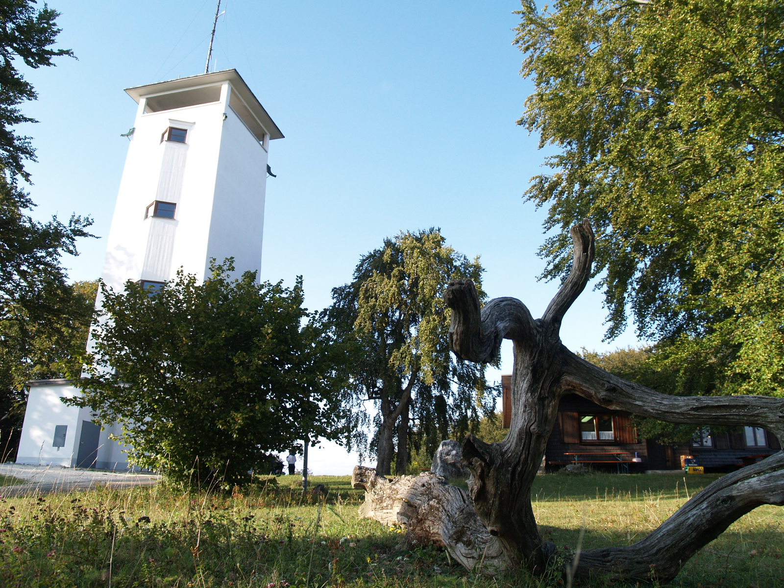 Lookout tower on the Volkmarsberg, near Oberkochen, Germany